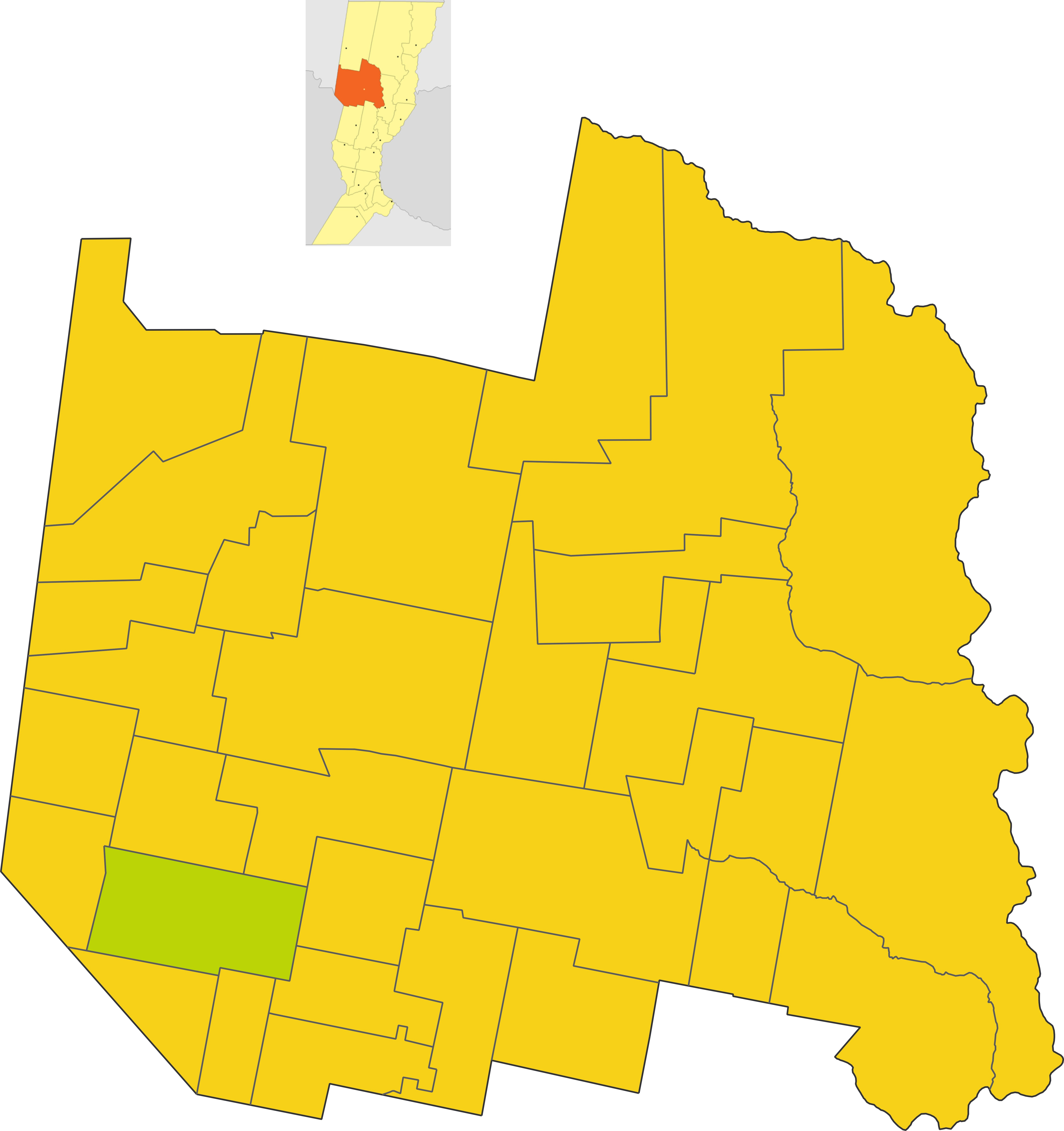 Map of the comuna de Suardi in San Cristobal department, Santa Fe province, Argentina